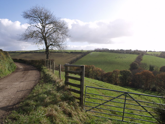 Valley near West Peeke. The square is dominated by this deep valley carrying a small tributary of the Tamar westwards (to the right). The lane is a no through road from the farm at West Peeke, which turns sharply up the valley at this point, crossing it at the eastern edge of the square (609362).